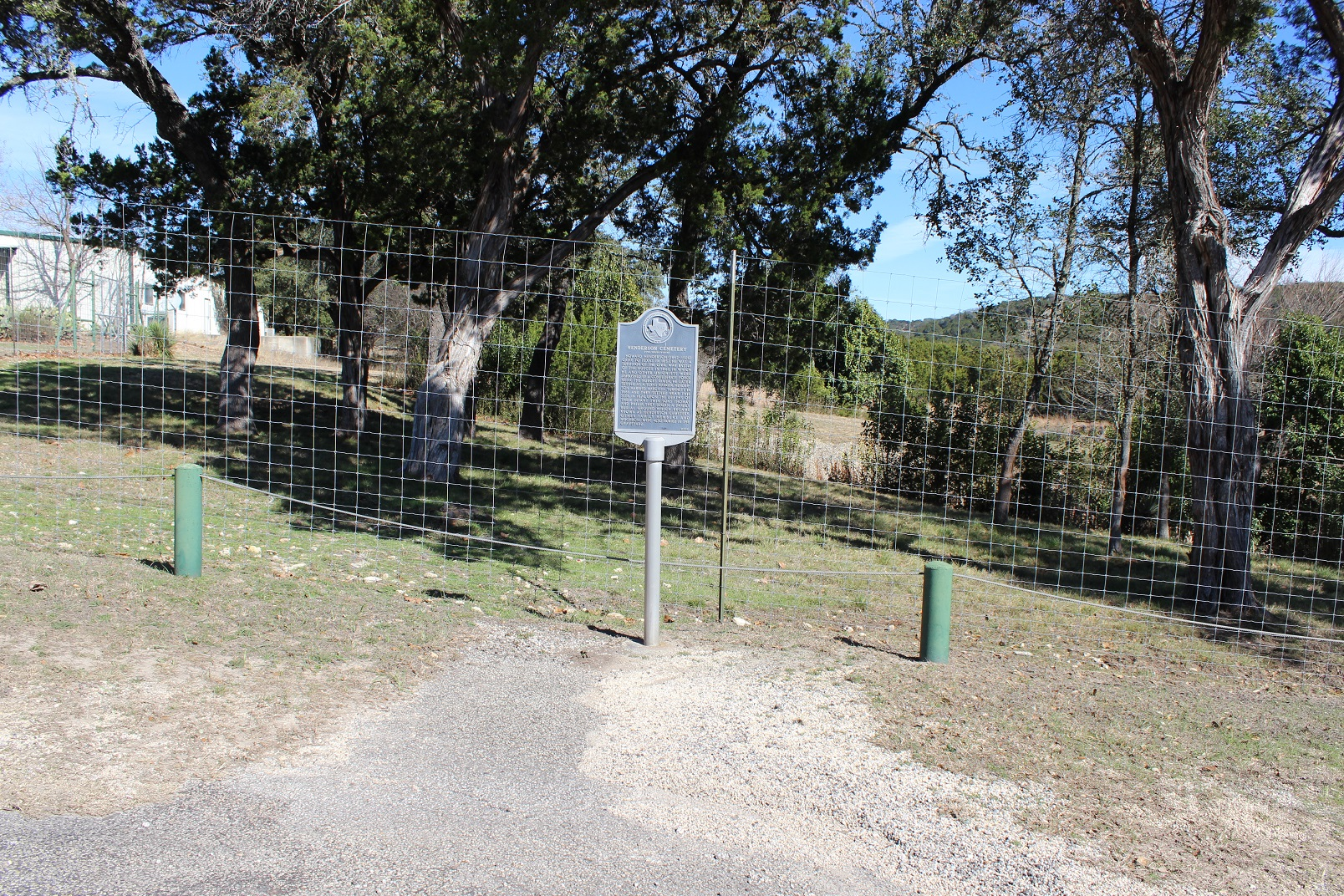 Henderson Cemetery (Two miles north). Howard Henderson (1842-1908) came to Texas in 1857. He was a survivor of the Civil War Battle of the Nueces in 1862, in which he and other Unionists were ambushed by a Confederate force near the Nueces River. He later served as Texas Ranger. Henderson married Narcissa Turknett in 1866 and they settled near this site. In 1870, upon the deaths of their infant twin sons Thomas and Philip, they began a family burial ground which became known as Henderson Cemetery. Other family members and neighbors were also buried in the graveyard. (1990) #2436